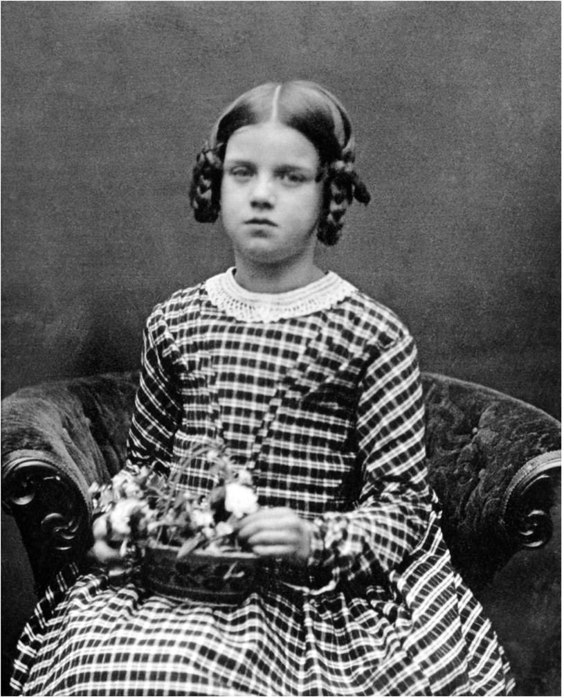 Annie Darwin, daughter of Charles and Emma Darwin. Daguerrotype taken in 1849.